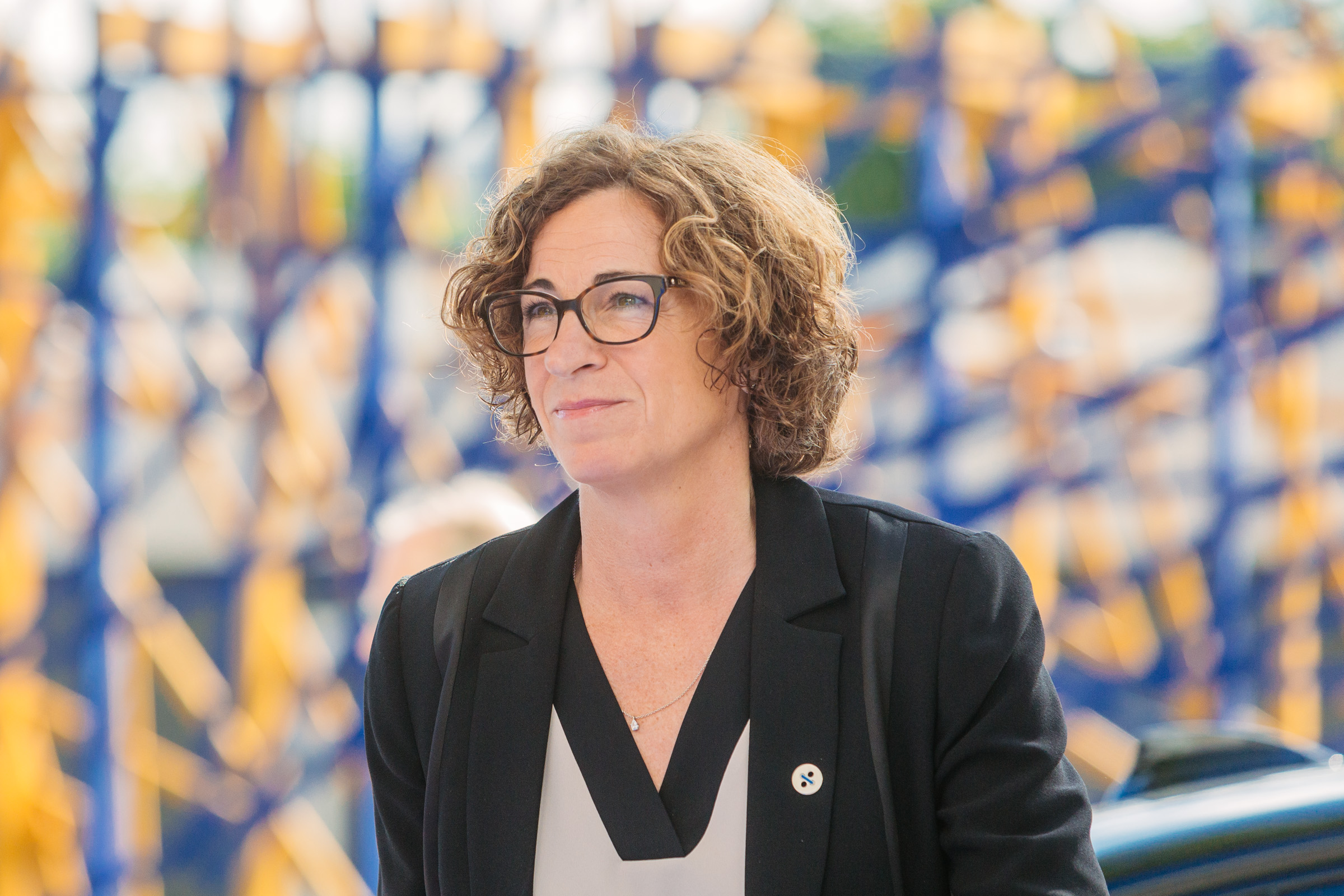 Christl Kvam, State Secretary, Ministry of Labor and Social Affairs, Norway Photo: Arno Mikkor (EU2017EE)